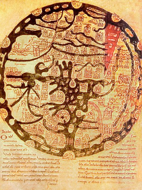 A map of the known world (mappa mundi) from an 11th century copy of the writings of Isidore of Seville (AD 560-636). East is placed at top, and the Red Sea is shown in red, as usual for such maps. Image enhanced by contributor.